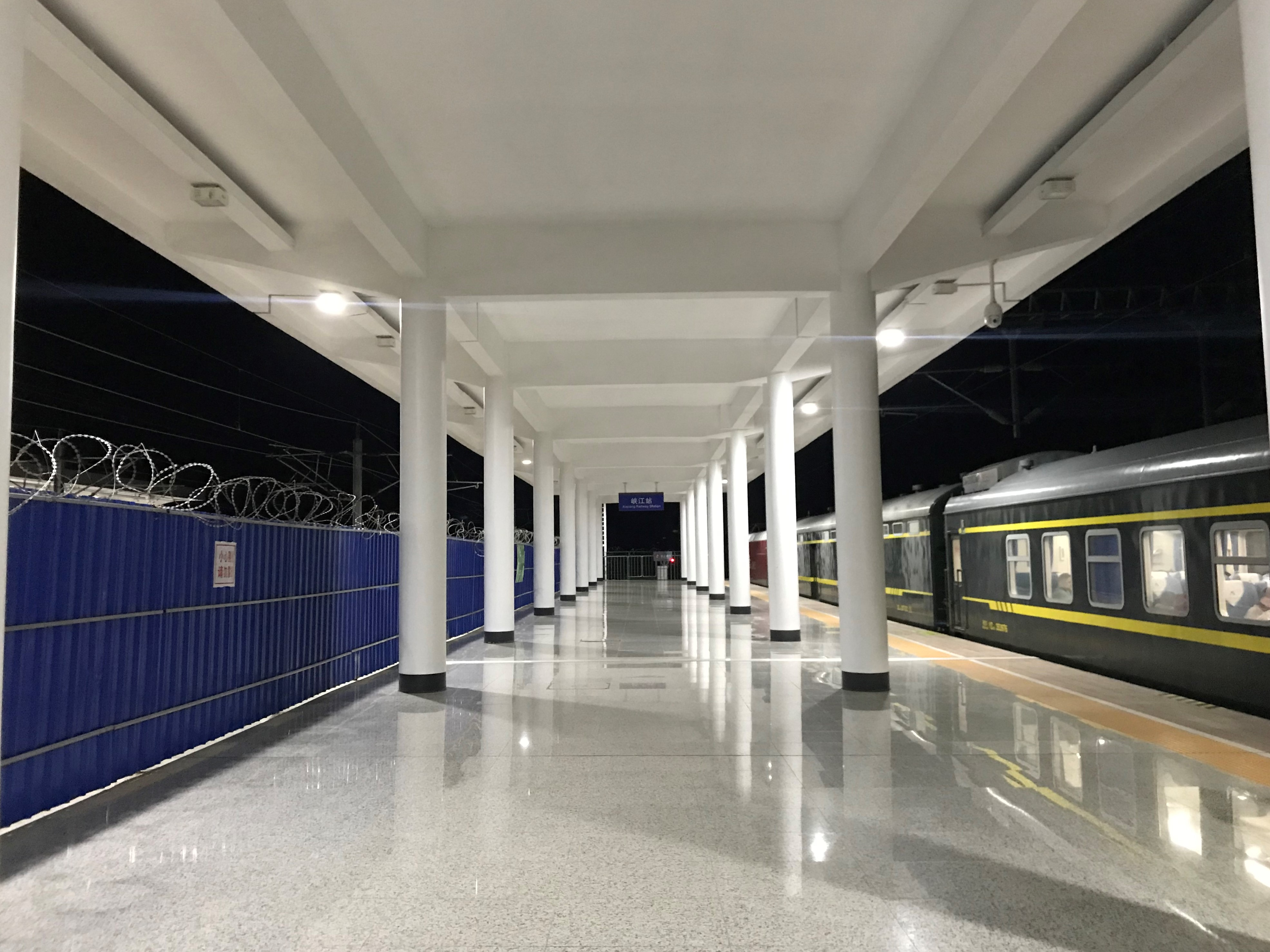 Just like another Yiyang?